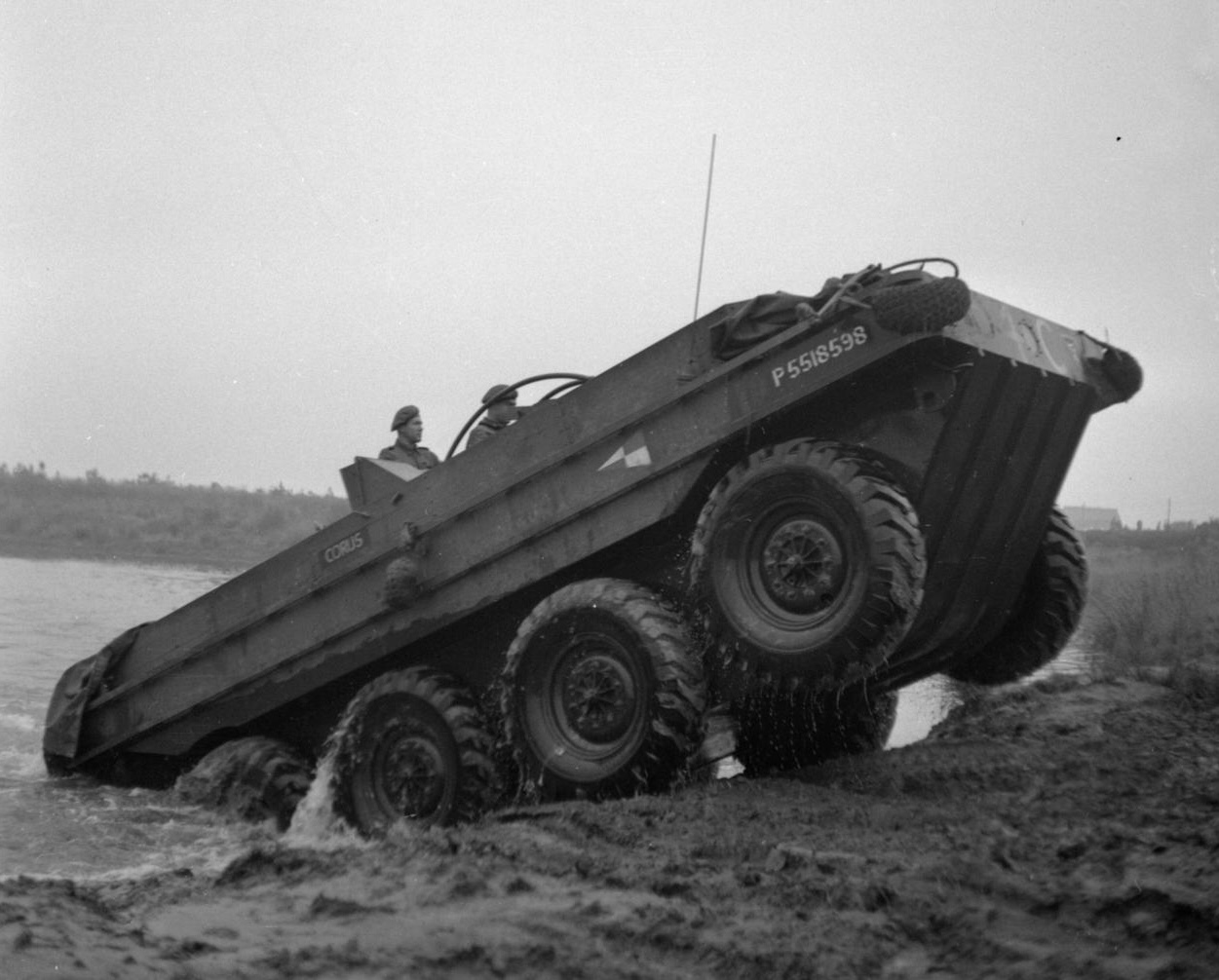 A Terrapin amphibious vehicle undergoes testing.